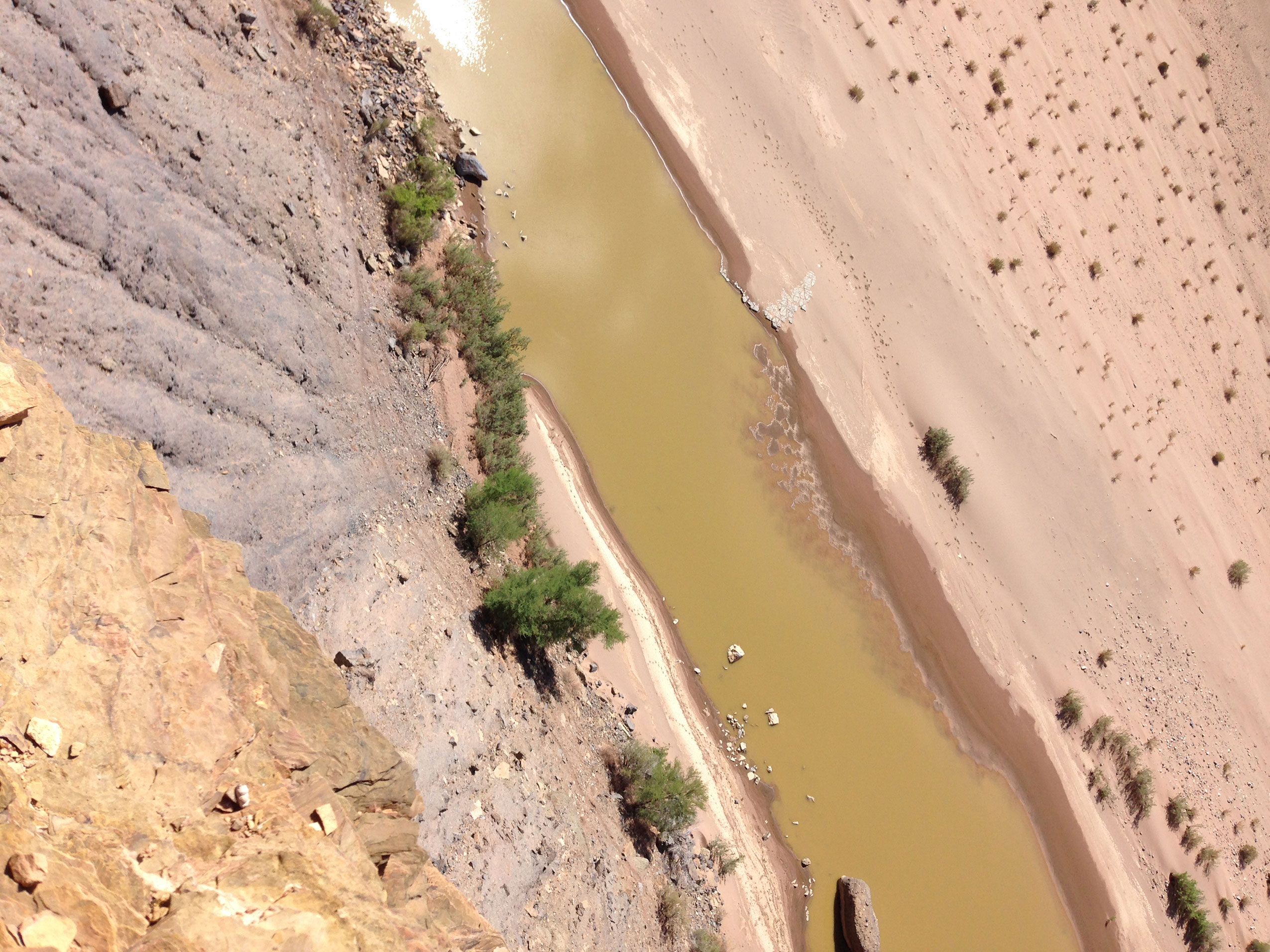 Fish River (Namibia) from the edge of the inner Fish River Canyon